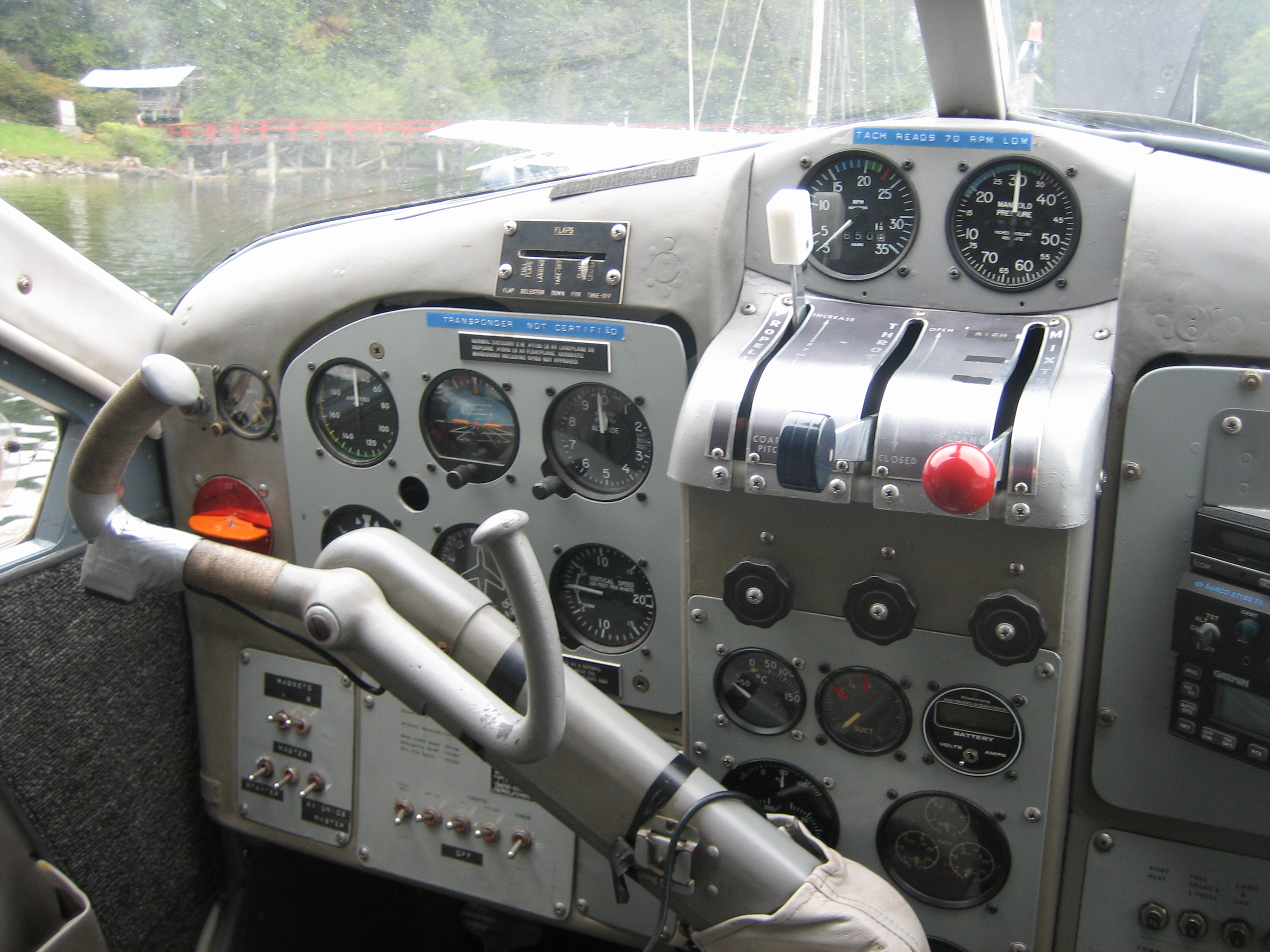 Instrument panel of a de Havilland Canada DHC-2 Beaver Image by Fawcett5, August, 2005.